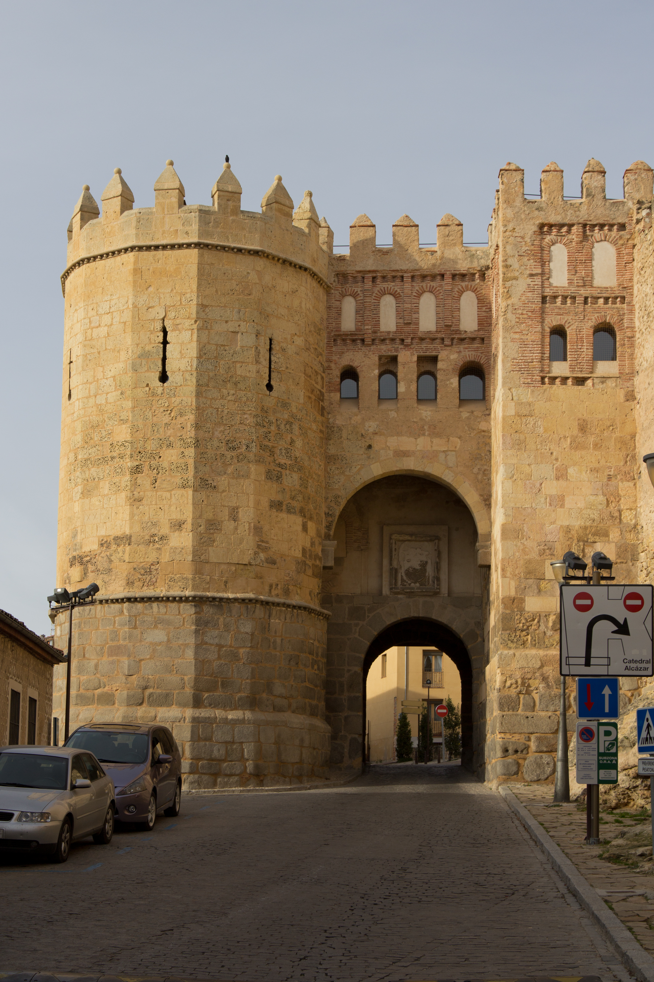 Gate of San Andrés, Segovia, Spain.